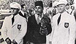 Khedr el-Touni - Berlin Olympics 1936